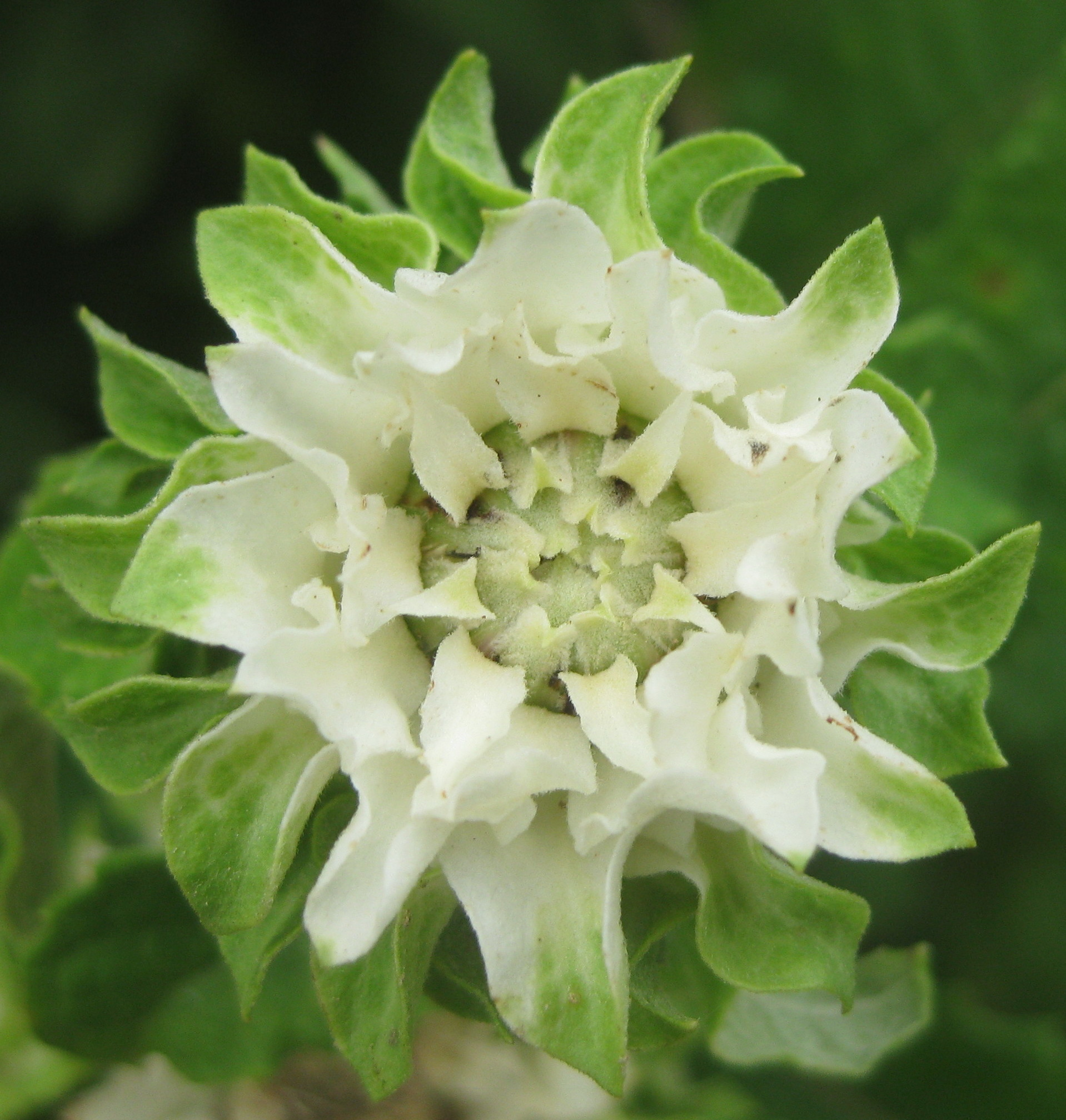 Flower head of Vernonia calvoana (a shrub of the family Asteraceae) in the bud phase. Museu Wamutoto, Manica province, Mozambique.